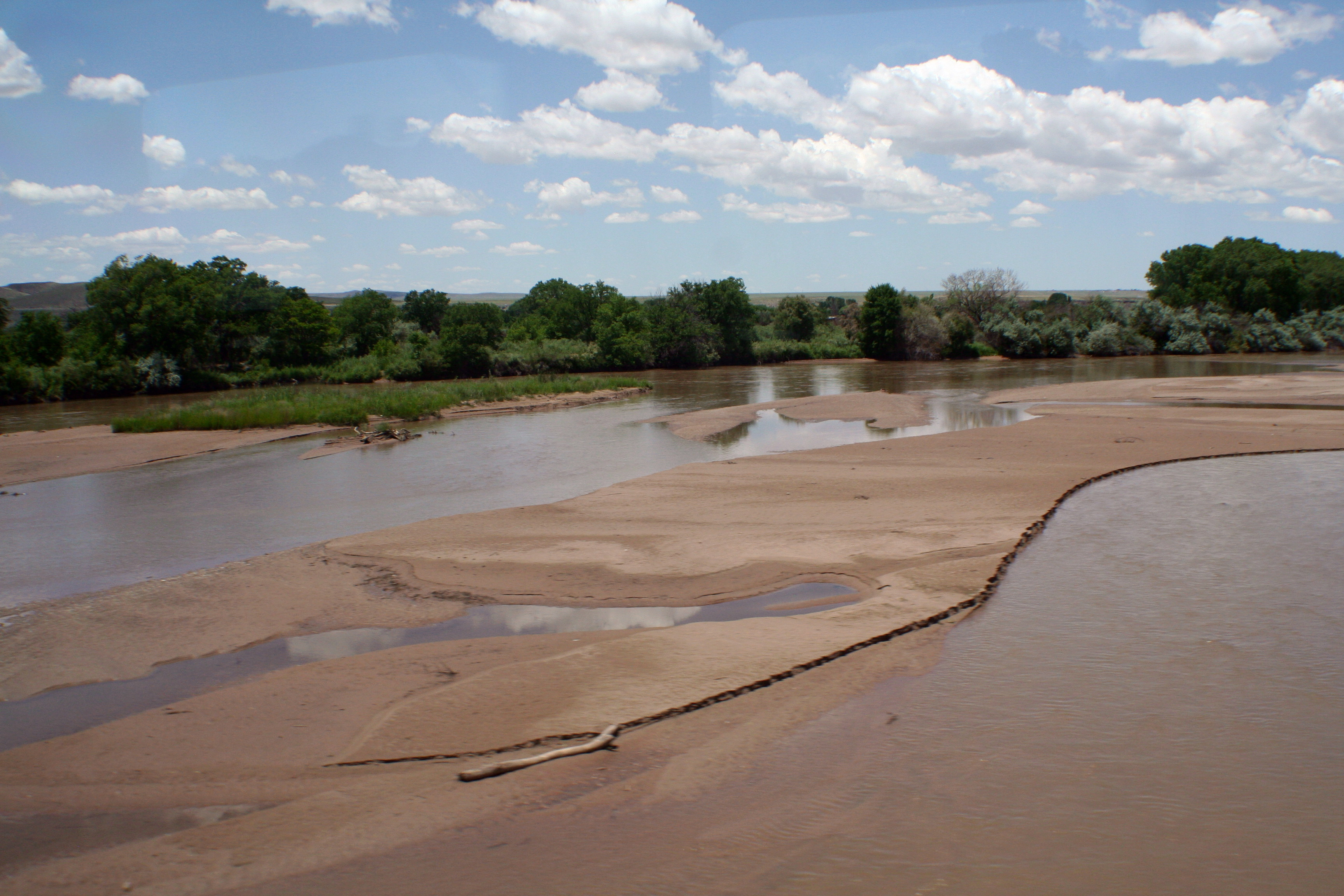 The Rio Grande River near Isleta Pueblo south of Albuquerque